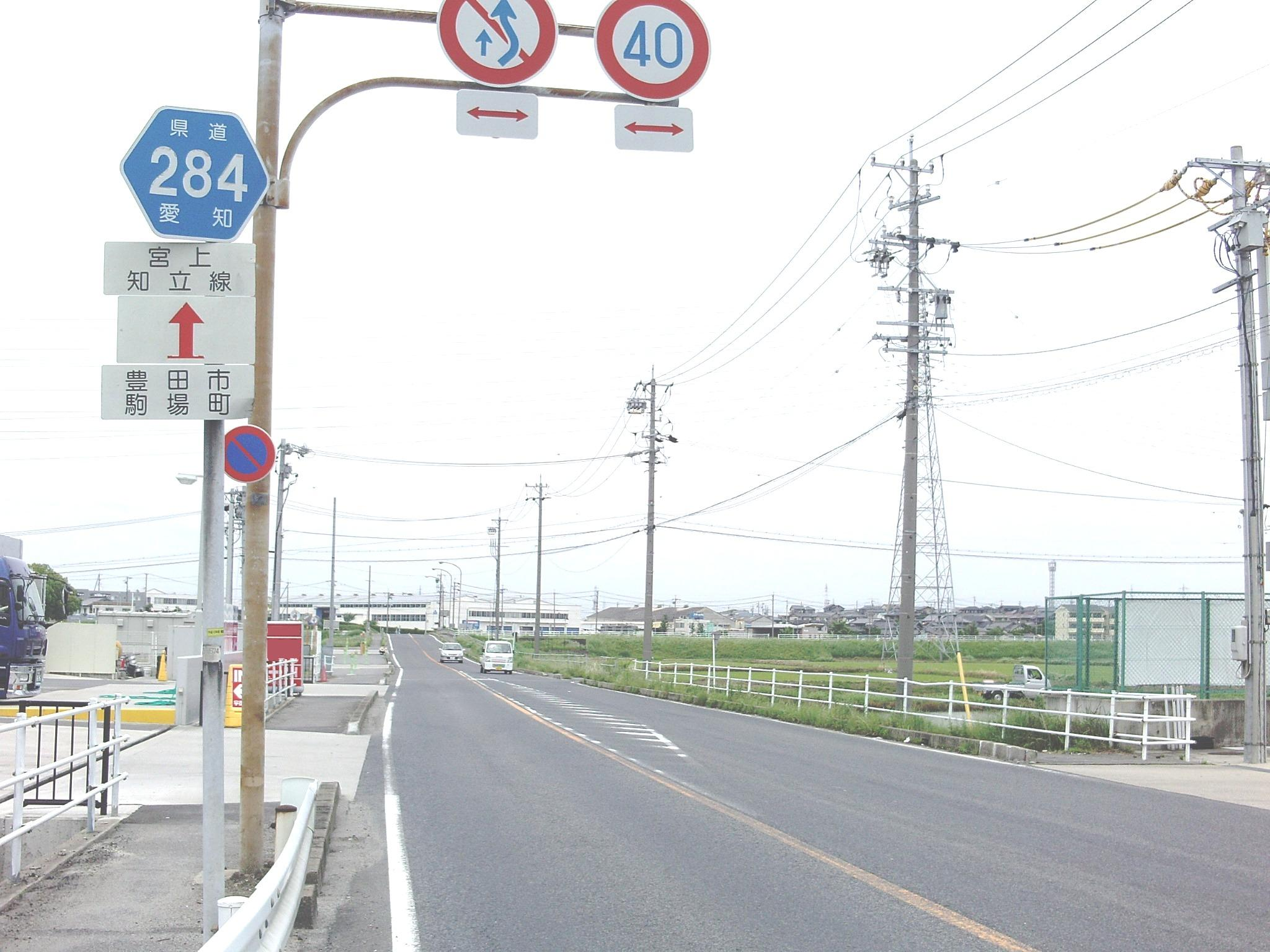 Aichi prefectural road No.284 in Komabacho, Toyota, Aichi.